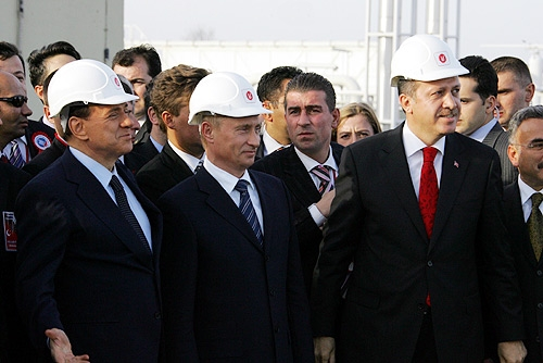 Russian president Vladimir Putin and Turkish Prime Minister Recep Tayyip Erdoğan and Italian Prime Minister Silvio Berlusconi at the opening of the Blue Stream Gas Pipeline